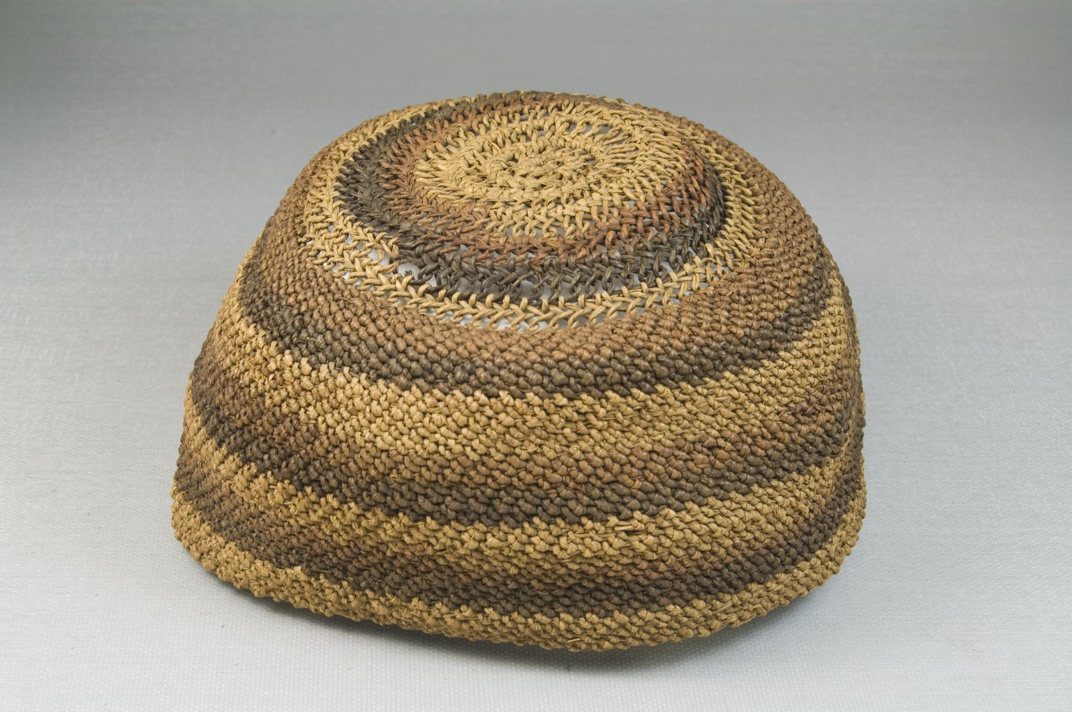 Brown and tan stripes-alternating bands running around cap. Overhand knotting, knotted face with openwork looping at crown. Colors are natural, medium brown and dark brown. Condition: very good.